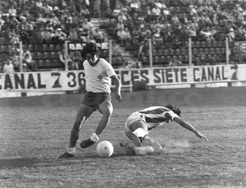 René Houseman dribbing while playing for Huracán.